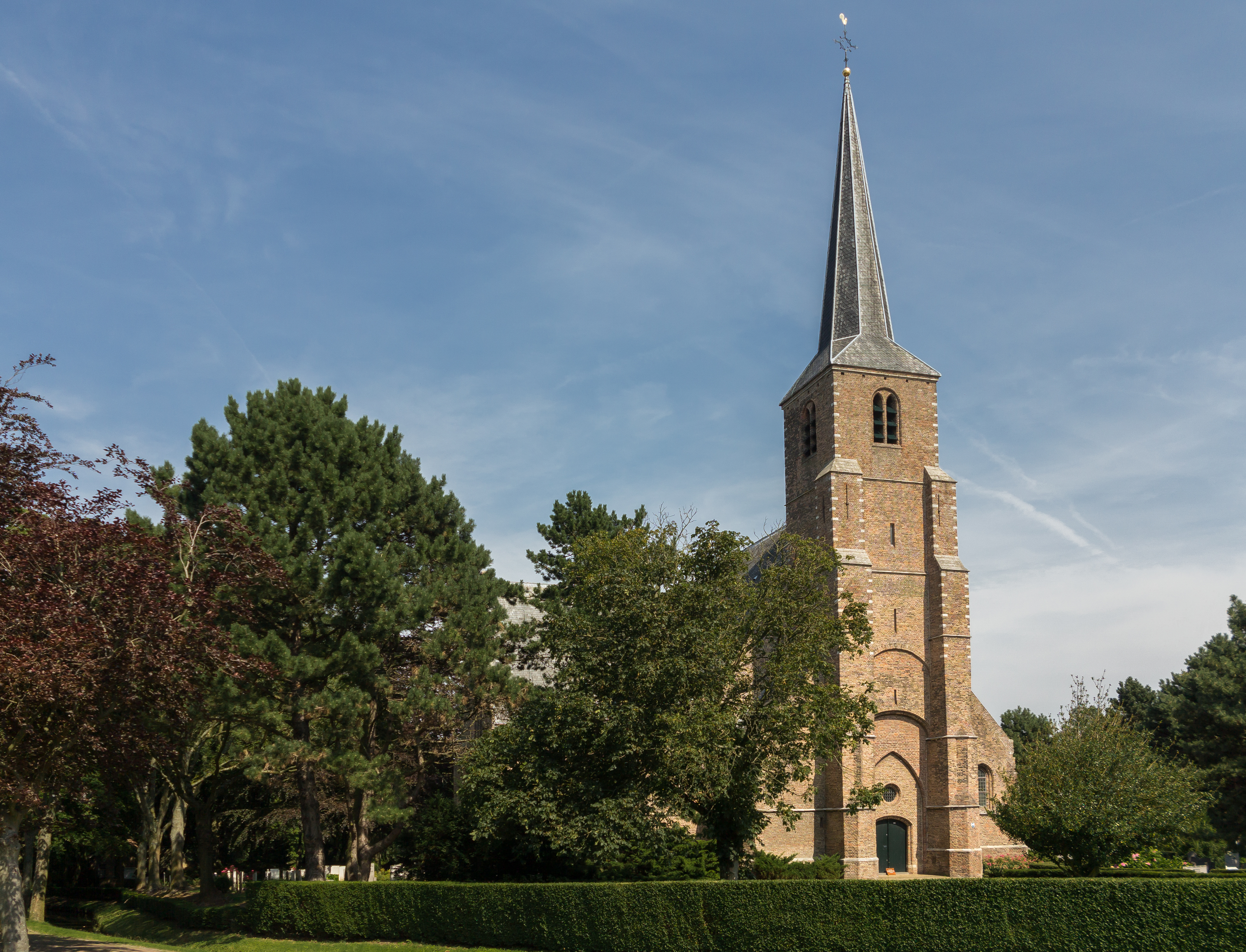 Portugaal, reformed church